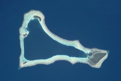 A view of Sikaiana (formerly known as Stewart Islands Atoll) from space.